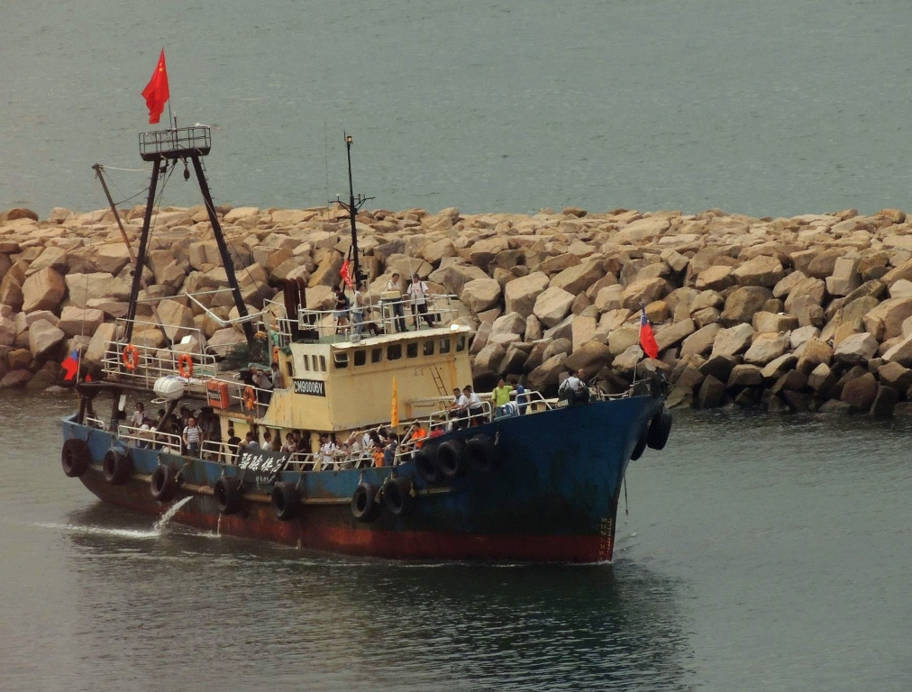 "Kai Fung 2" back to Shaukeiwan Typhoon Shelter.